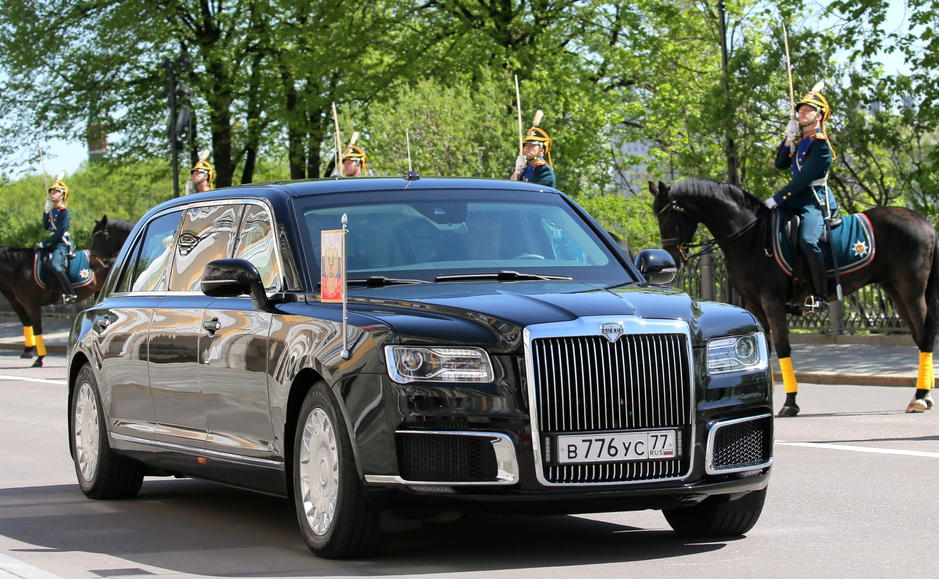 Vladimir Putin has been sworn in as President of Russia (2018-05-07)